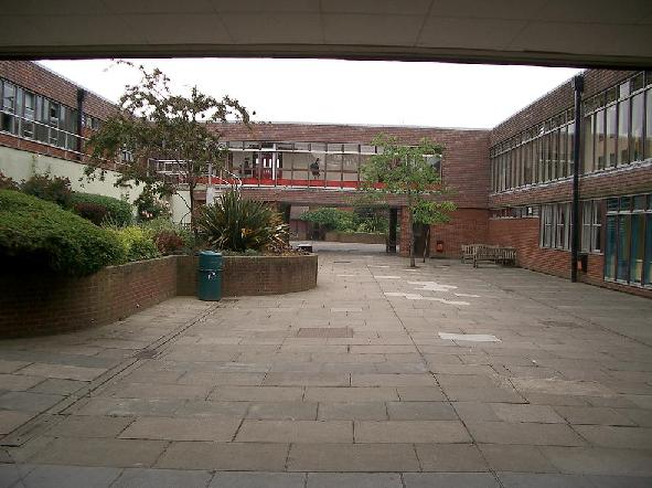 Taken myself, a picture of the School Quad's